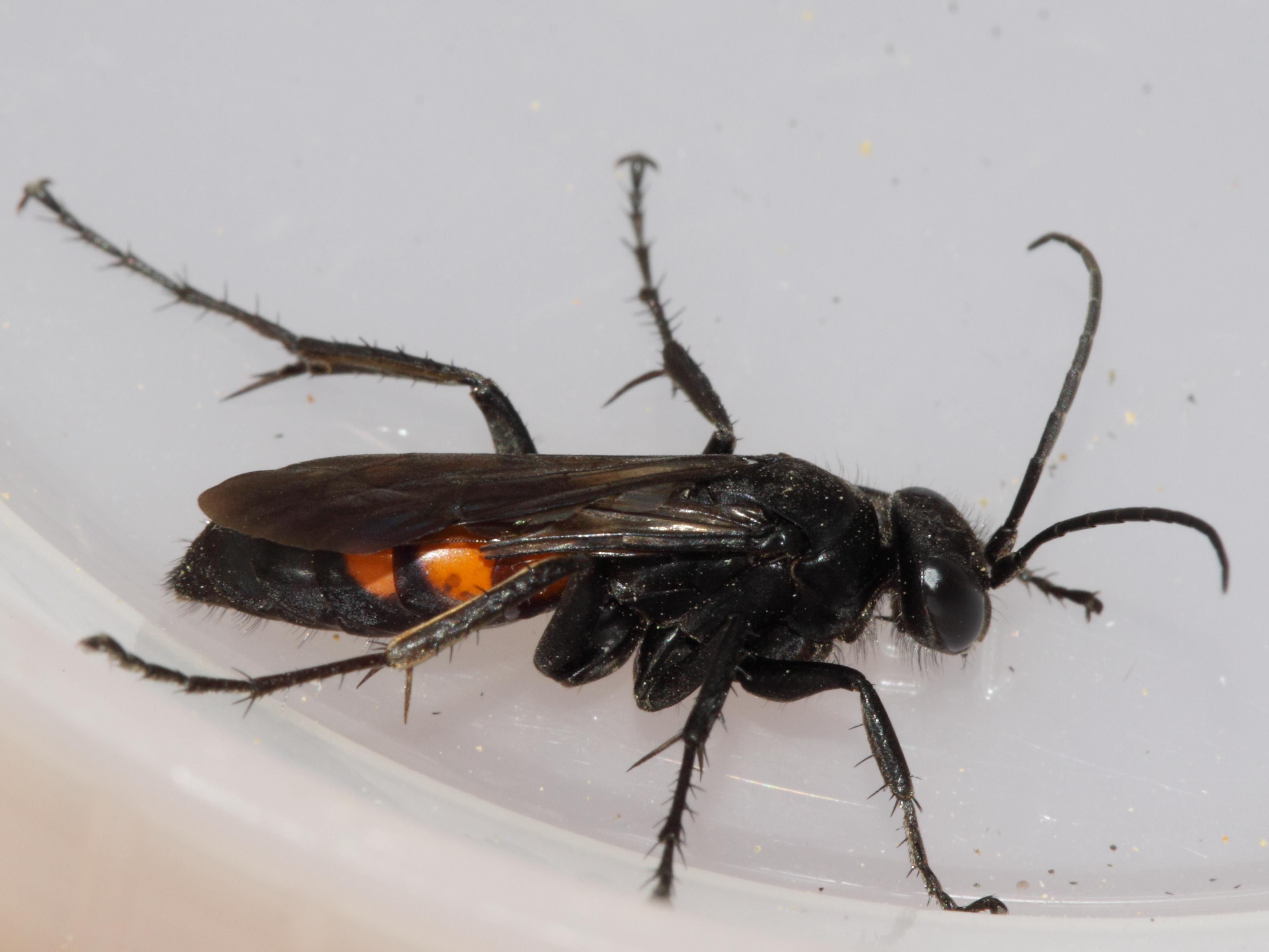 L: 9 -14 mm, (female, Weibchen) Phylum: Arthropoda Subphylum: Hexapoda Class: Insecta (insects, Insekten) Subclass: Pterygota Order: Hymenoptera (Hautflüglern) Suborder: Apocrita (Taillenwespen) Superfamily: Vespoidea Family: Pompilidae (spider wasps, Wegwespen) Subfamily: Pompilinae Tribus: Pompilini Genus: Anoplius Dufour, 1834 Anoplius viaticus LINNAEUS, 1758 (Black Banded Spider Wasp, Frühlings-Wegwespe) Germany, Brandenburg, vic. Königs-Wusterhausen: Dubrow, 01.05.2013 IMG_3356